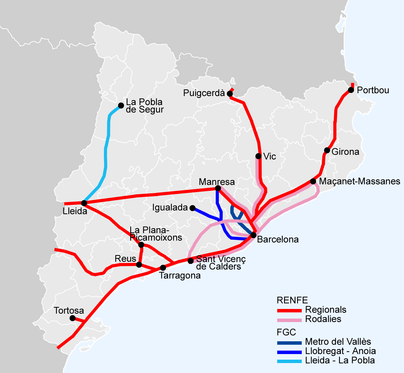 Map of the regional trains of Catalonia